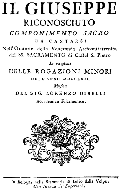 Lorenzo Gibelli - Il Giuseppe riconosciuto - titlepage of the libretto - Bologna 1762